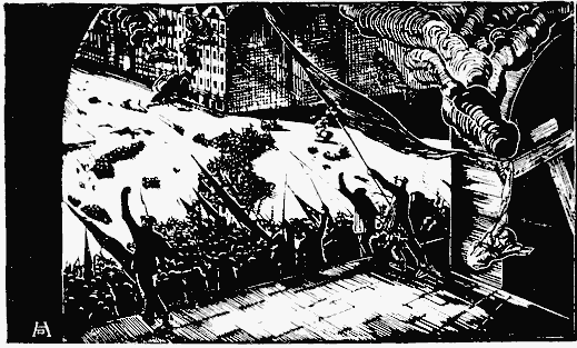 La révolte, a wood engraving (1923) by Nikolay Dmitrevsky on a poem by Émile Verhaeren